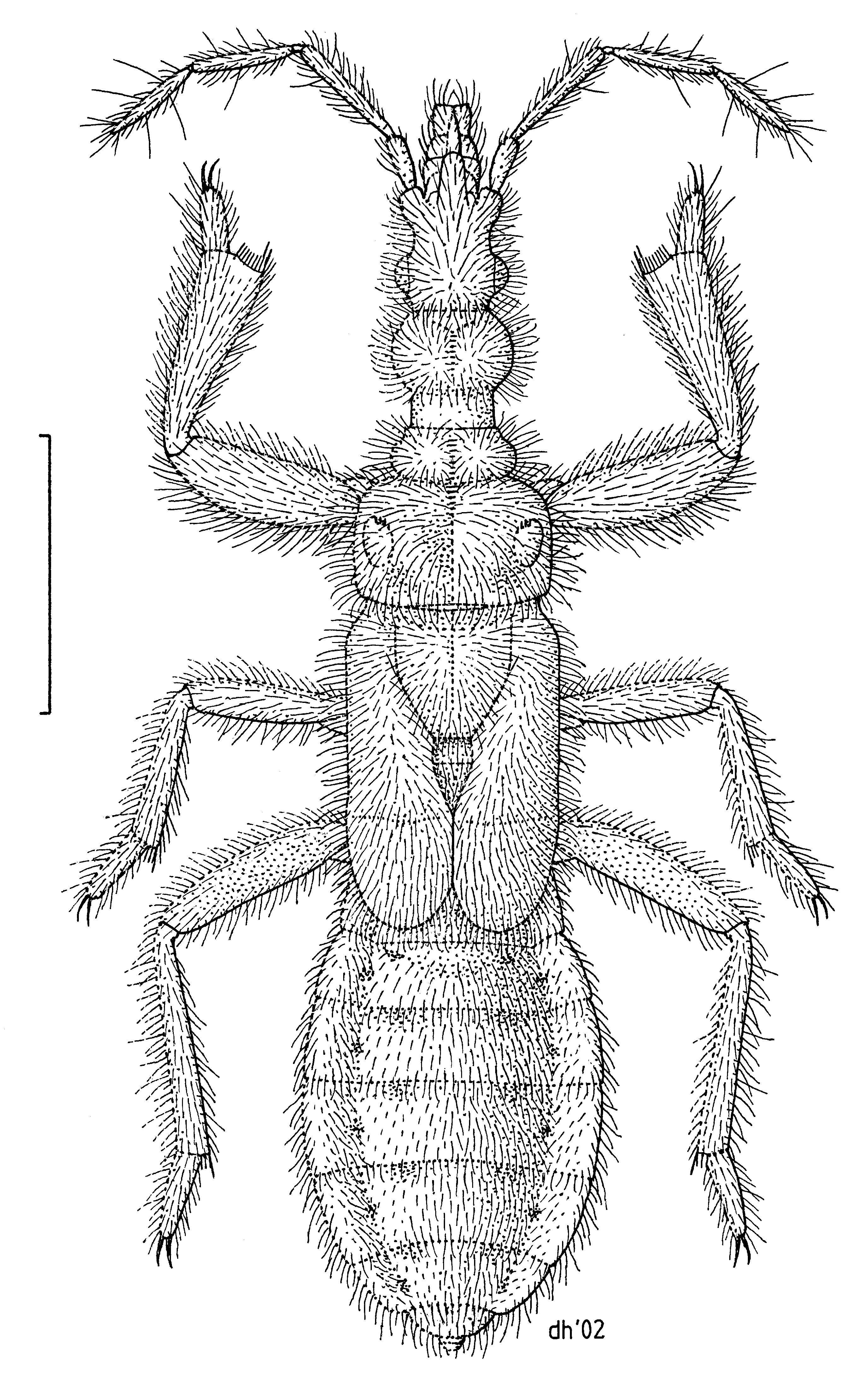 (Hemiptera: Aenictopecheidae) Aenictocoris powelli illustrated by Des Helmore. [Misidentified! This is certainly not Aenictocoris! It appears to be a nymph of a species of Systelloderes ... ThorpeStephen (talk) 05:14, 21 September 2018 (UTC)]